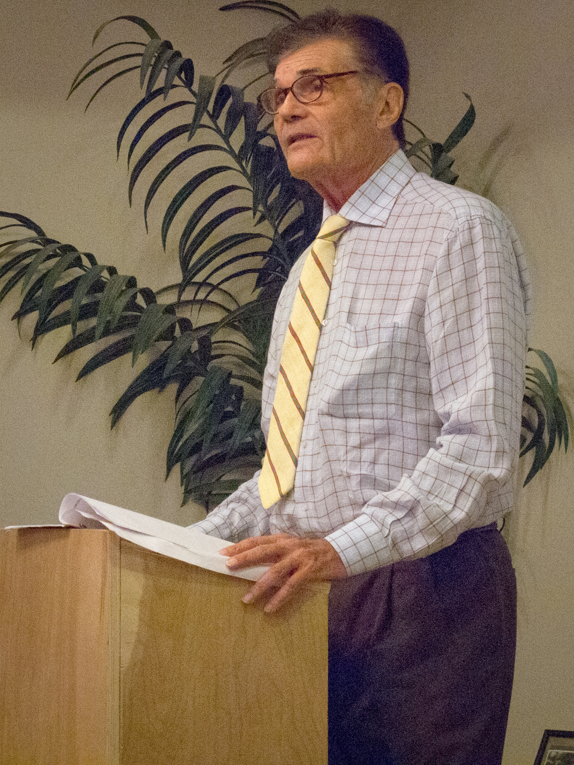 Fred Willard speaking in September 2012